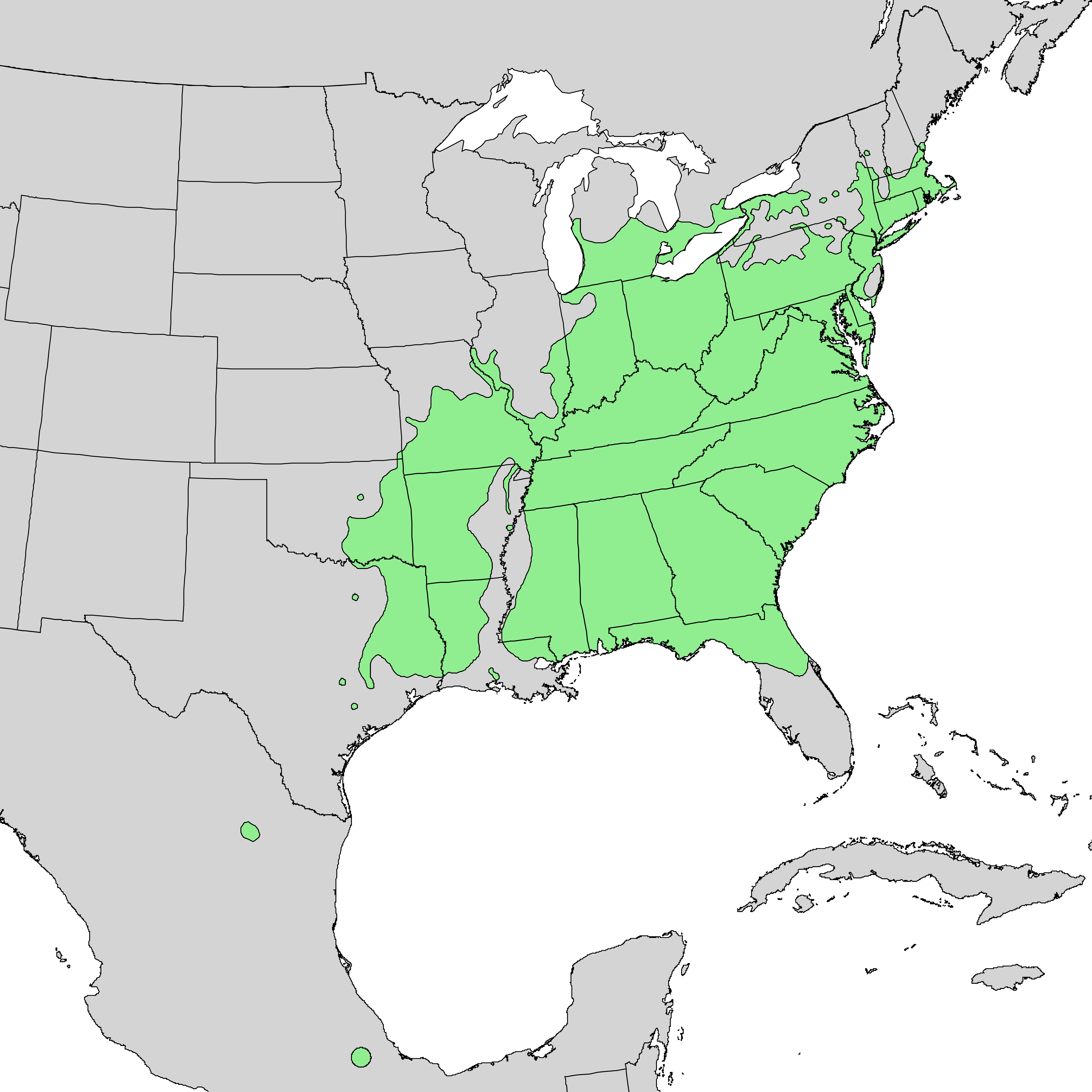 Natural distribution map for Cornus florida